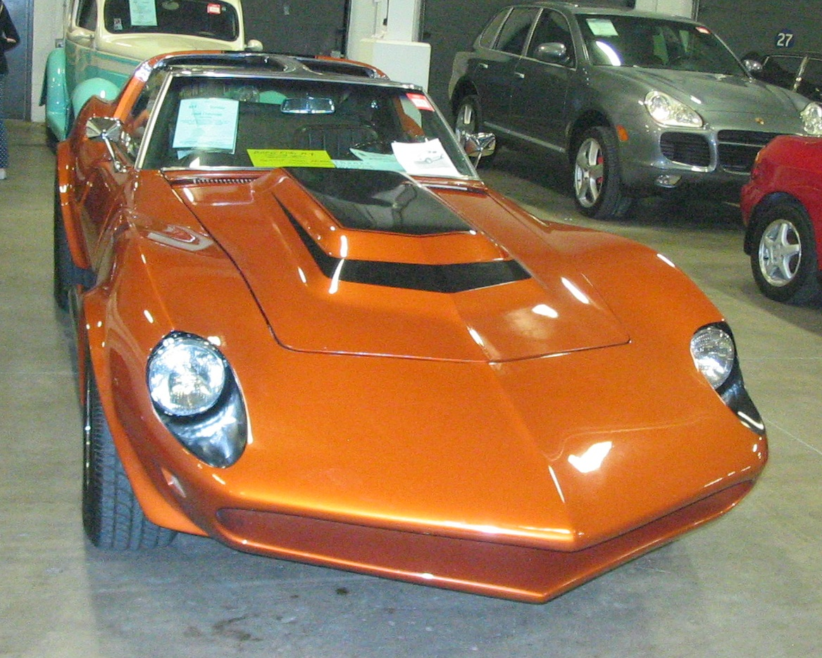 1968 Chevrolet Corvette Baldwin-Motion photographed in Mississauga, Ontario, Canada at the Toronto Classic Car Auction of spring 2012.